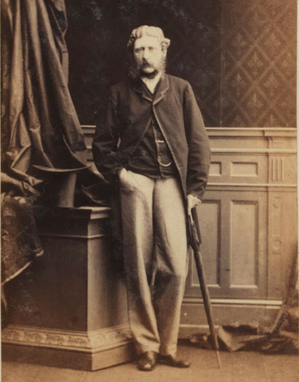 Albumen print of Sir Cromer Ashburnham (1831-1917) by Camille Silvy (1834-1910)